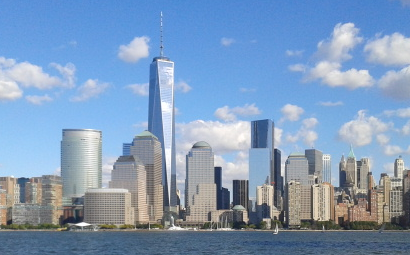 View of Western Lower Manhattan from New Jersey as of September 2013